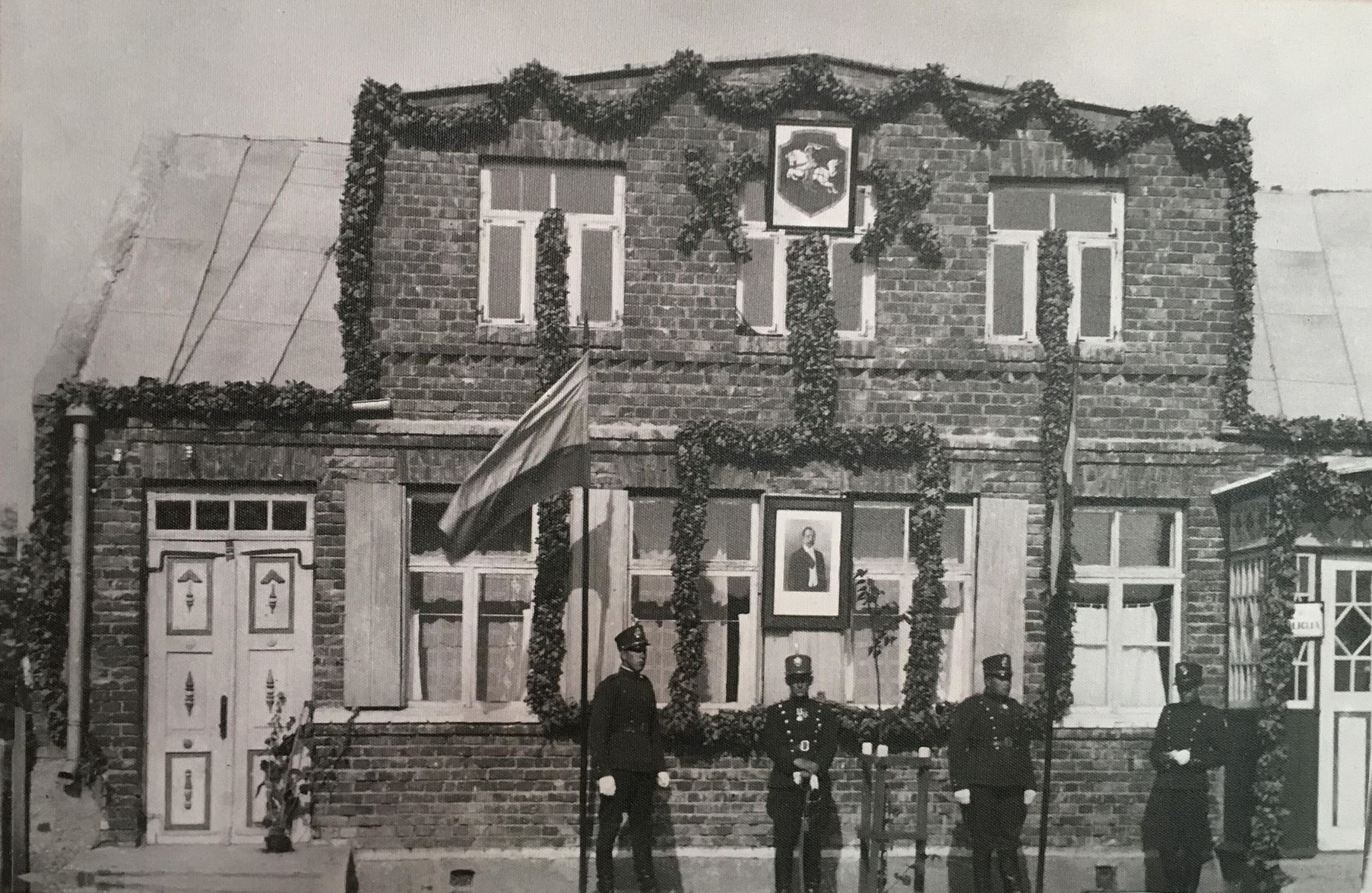 Židikai Police Office, 1938. Photocopy. Author unknown. Original photo belongs to Gedeminas Januška. The photo was taken during the photo exhibition in Židikai, 2018